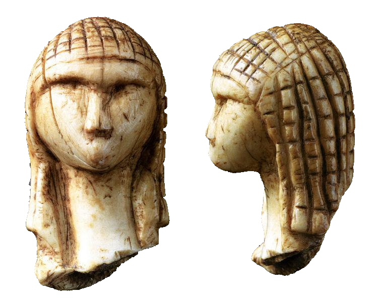 One of the earliest known realistic representations of a human face.